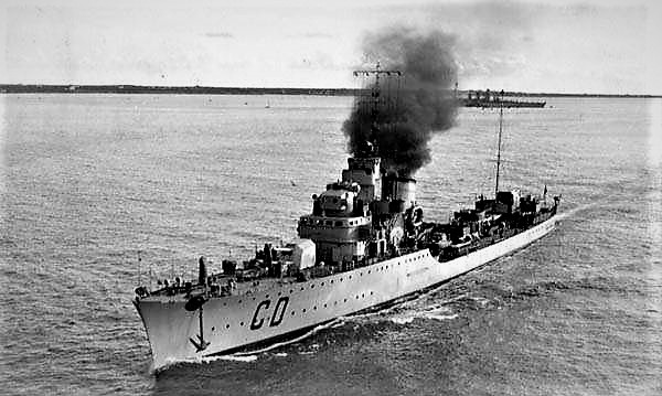 The destroyer Giosuè Carducci (CD) in navigation.